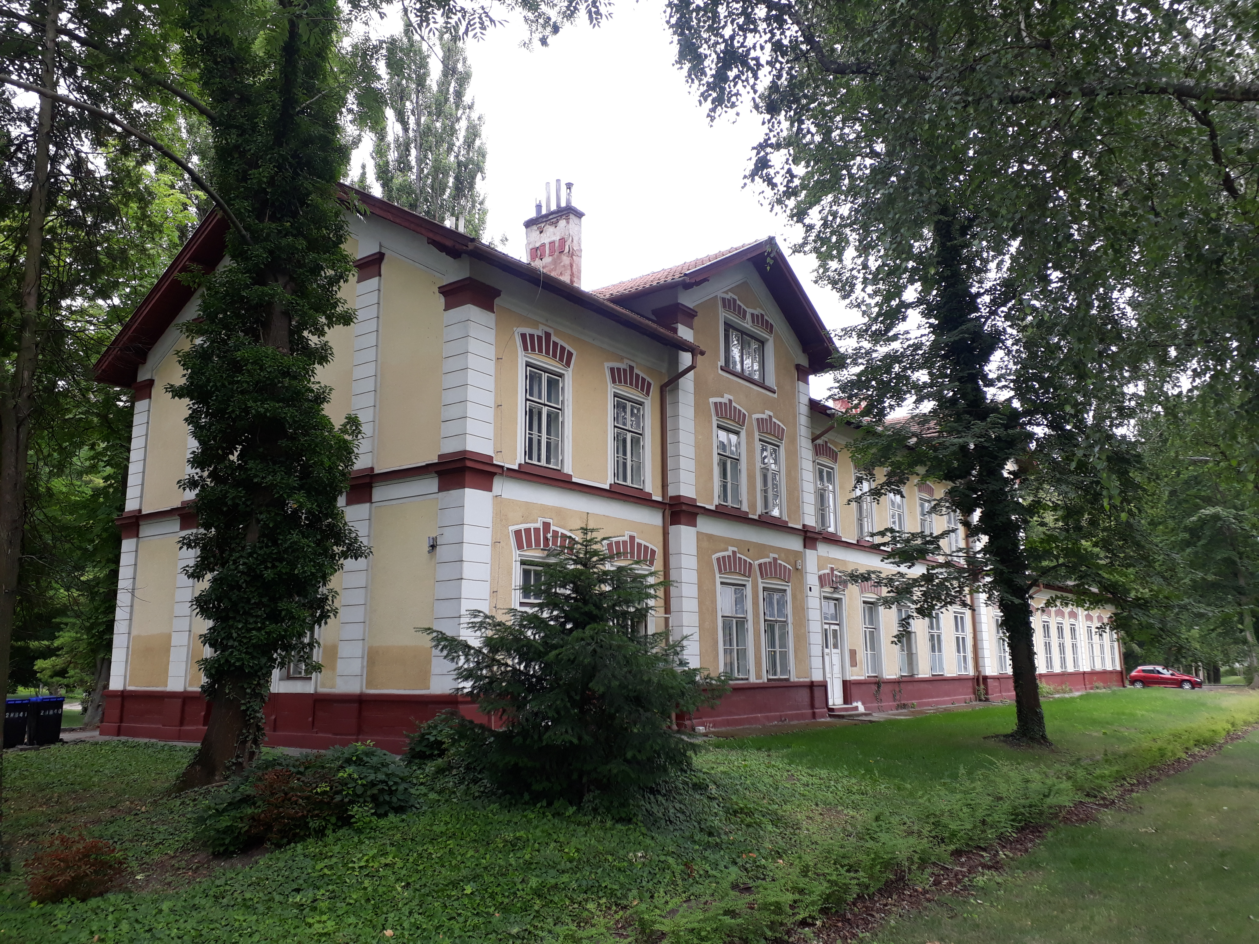 Trenčín old railway station building - view from former platform side